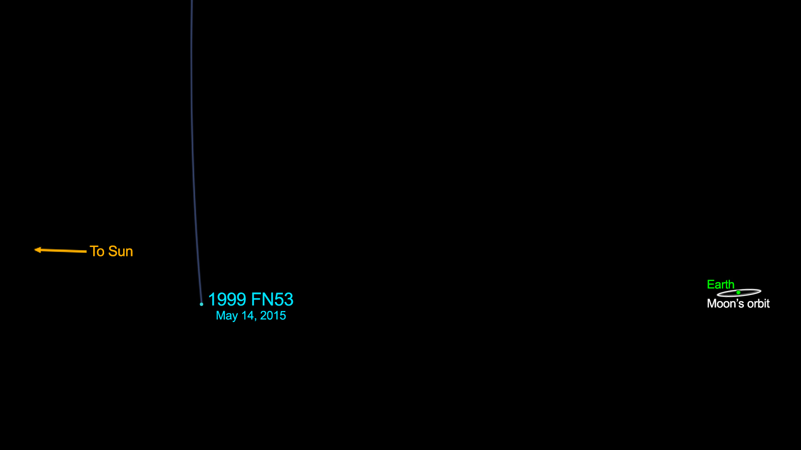 Close approach of asteroid 1999 FN53 to the Earth on 2015 May 14.